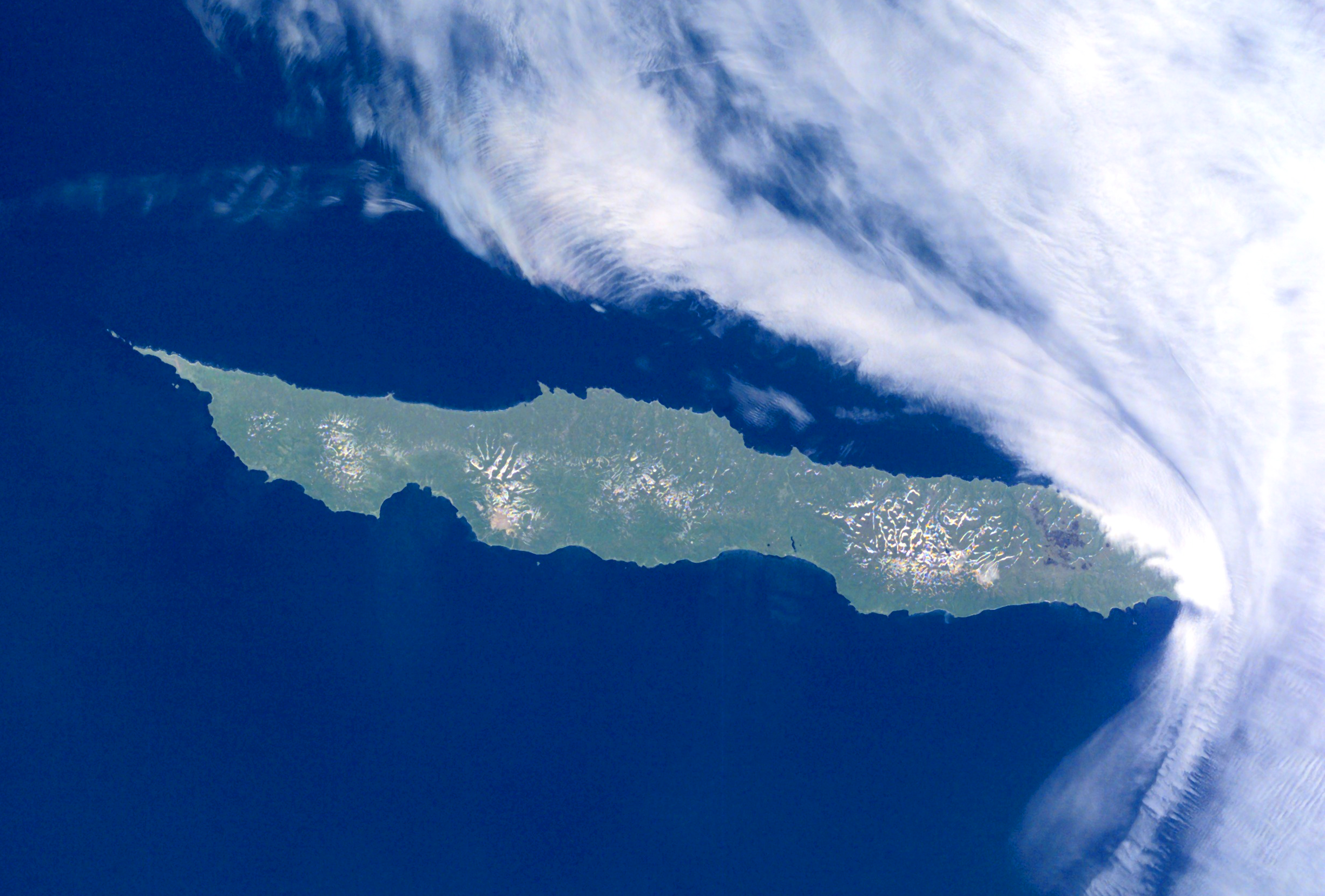 NASA picture of Urup island, Kuril Islands